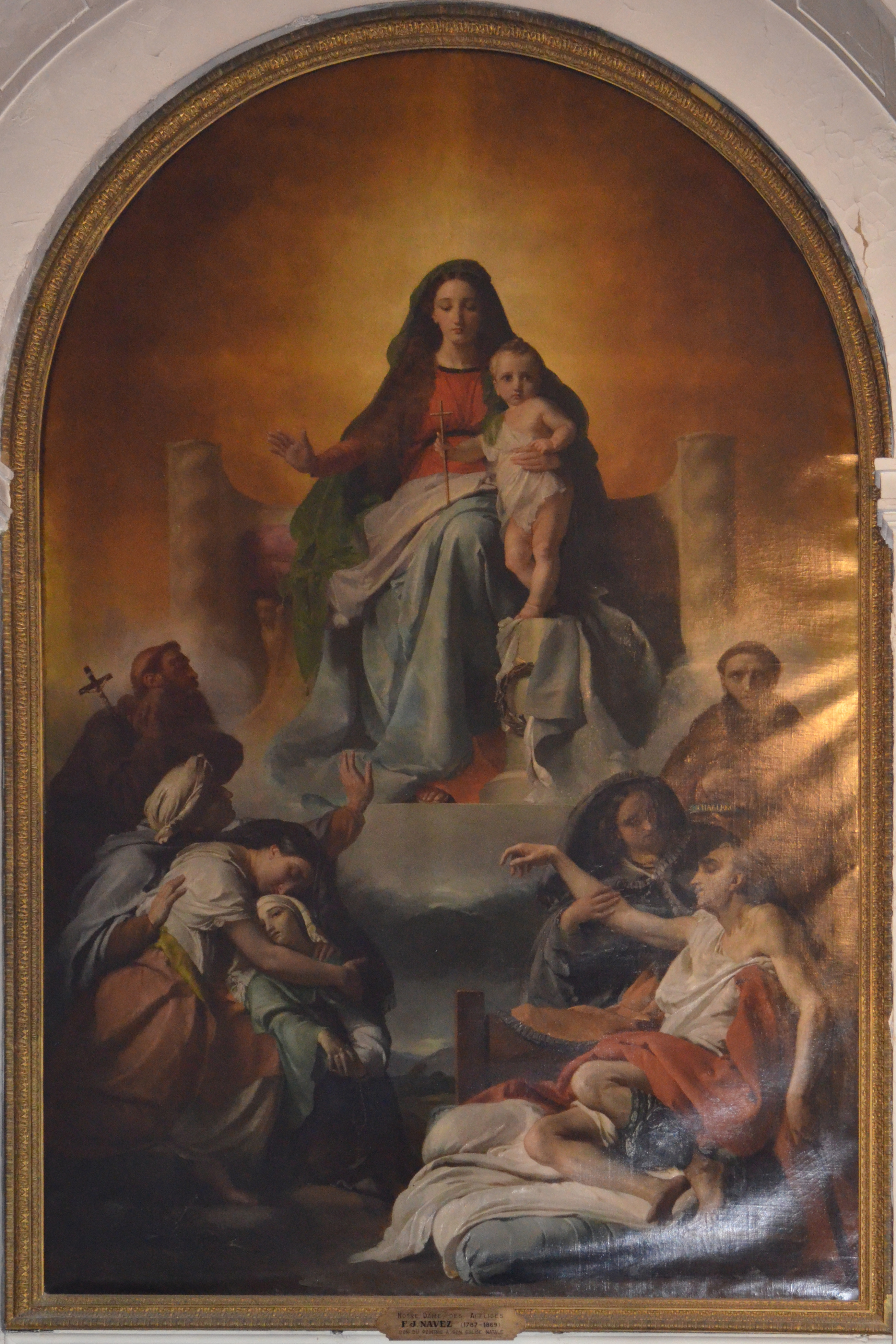 Our Lady of the Afflicted